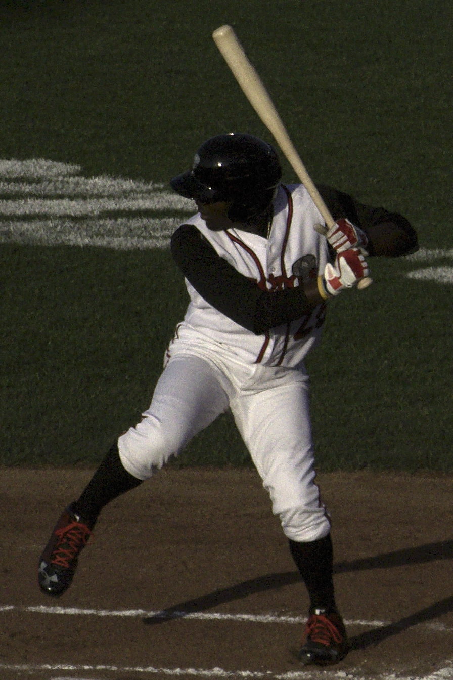 Dwight Smith, Jr. bats for the Lansing Lugnuts against the Michigan State Spartans in 2013.